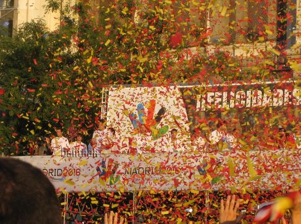 The Spanish basketball national team, winners of the Eurobasket 2009 in Poland. They also supported Madrid bid for 2016 Summer Olympics.